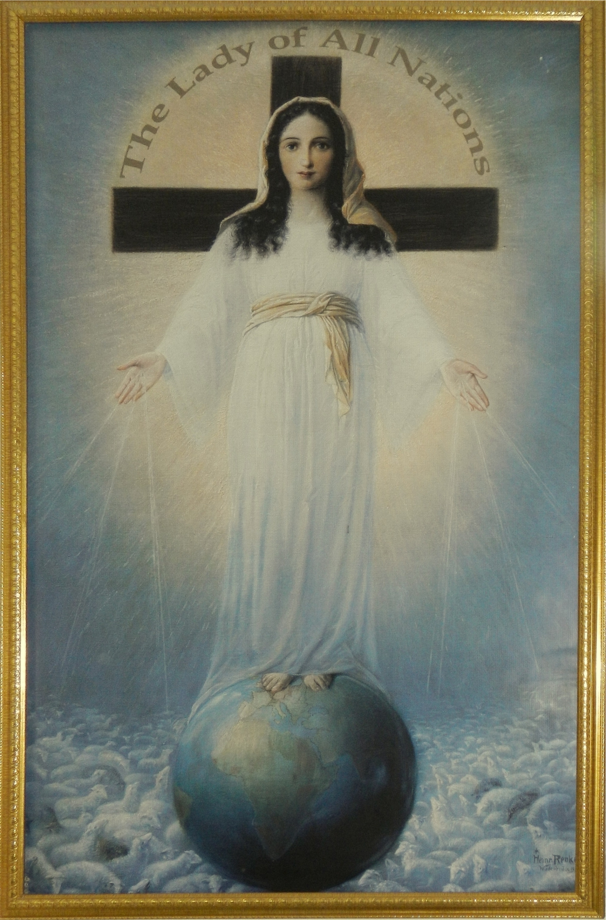 Virgen de las Flores Quasi-Parish Church in Barangay Bigte, Norzagaray, Bulacan, Bulacan province Solemnly Dedicated on August 27, 2007 (along the Bigte-San Mateo, Norzagaray, Bulacan Farm to Market Provincial Road and along the General Alejo G. Santos Highway (Angat-Norzagaray, Bulacan section) interconnecting with and from the Norzagaray, Bulacan Welcome arch located therein, including Republic Cement a CRH-Aboitiz Company, Norzagaray, Bulacan, the New Bigte Cockpit Arena beside Road 2 corners Road 5 and 10, Barangay Minuyan IV, Sapang Palay, City of San Jose del Monte, and the Santo Rosario Parish Church (Minuyan IV, San Jose del Monte, Bulacan).